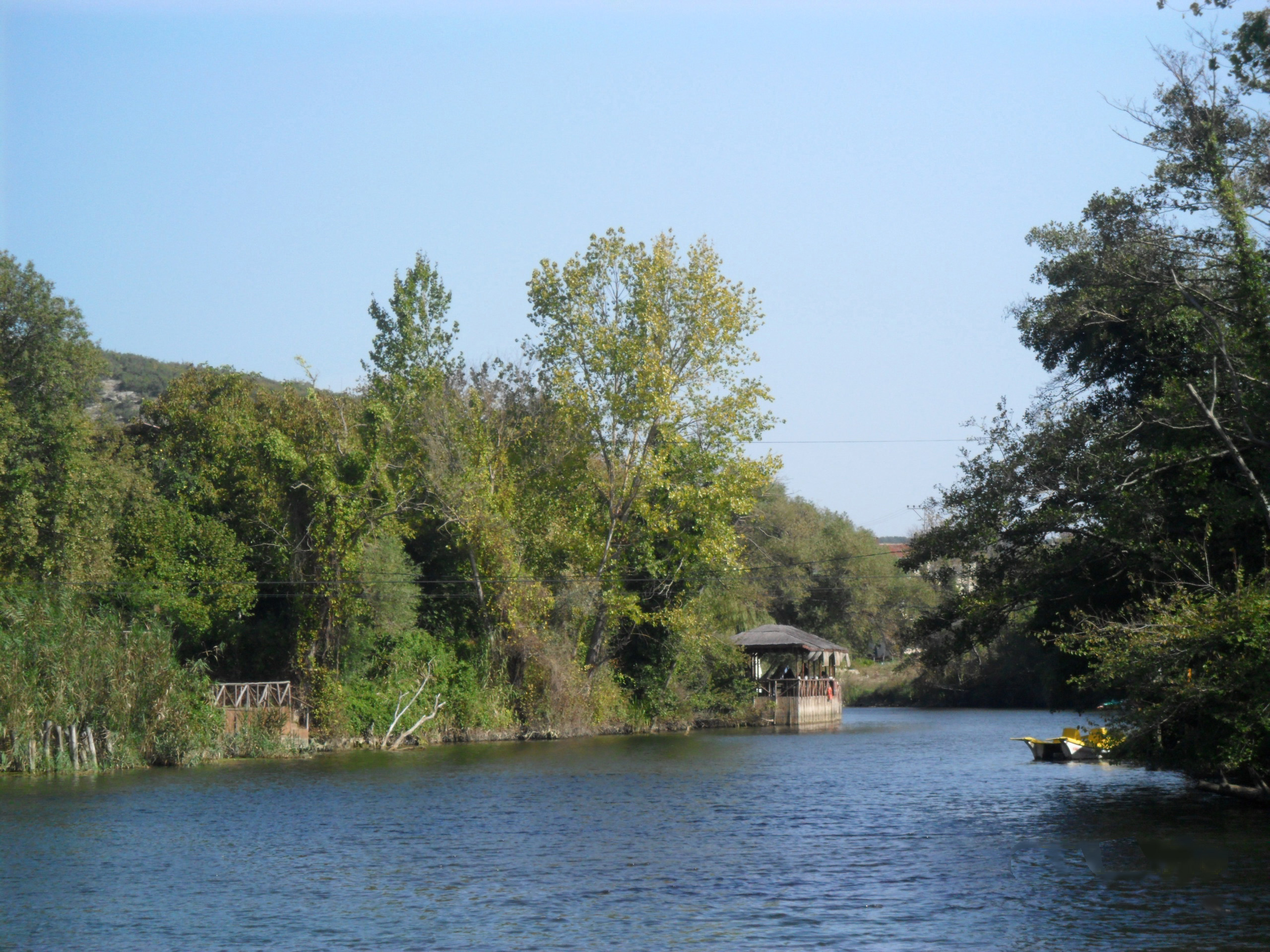 Göksu River, Ağva, Şile district, İstanbul Province, Turkey